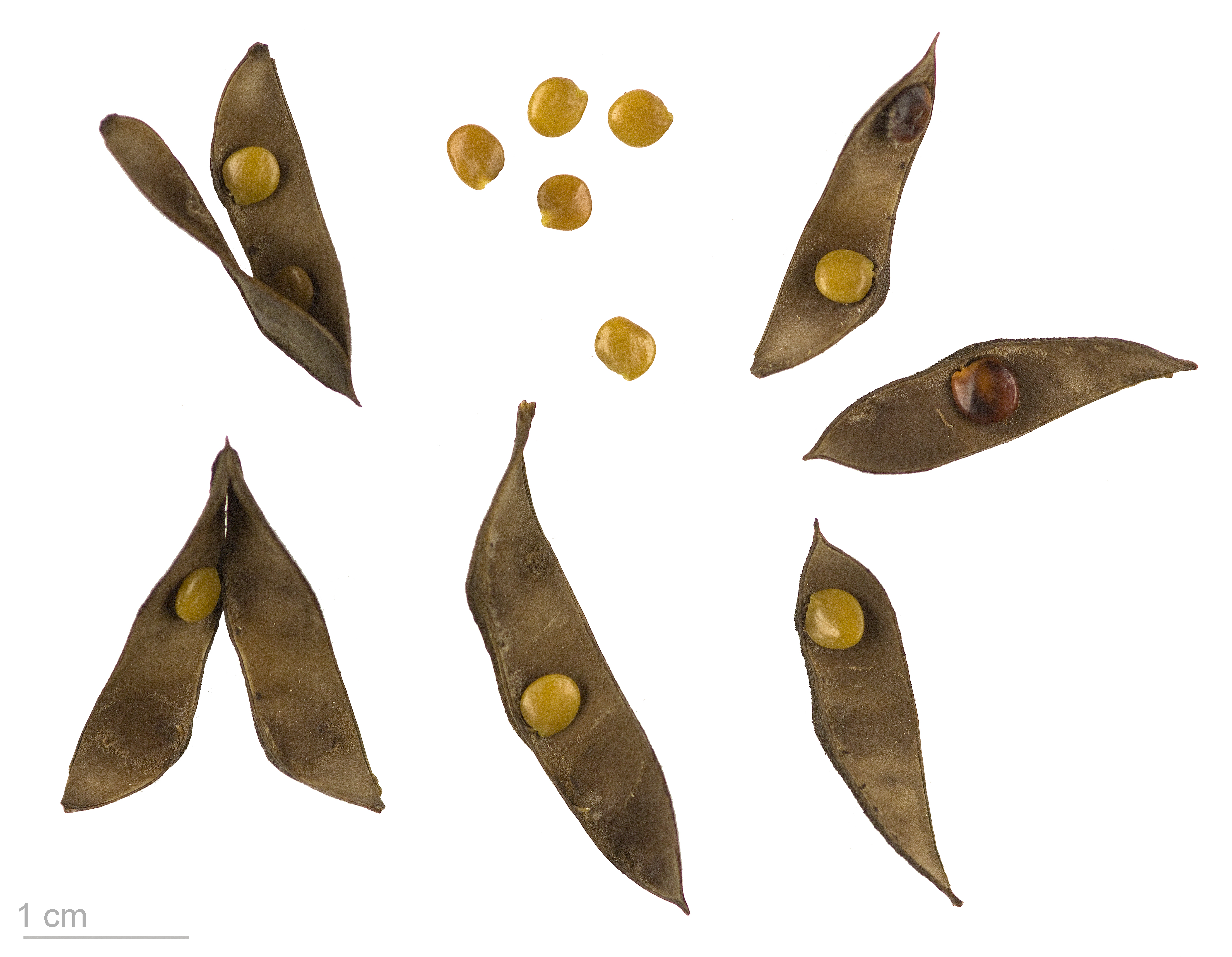 spiny broom , fruits and seeds